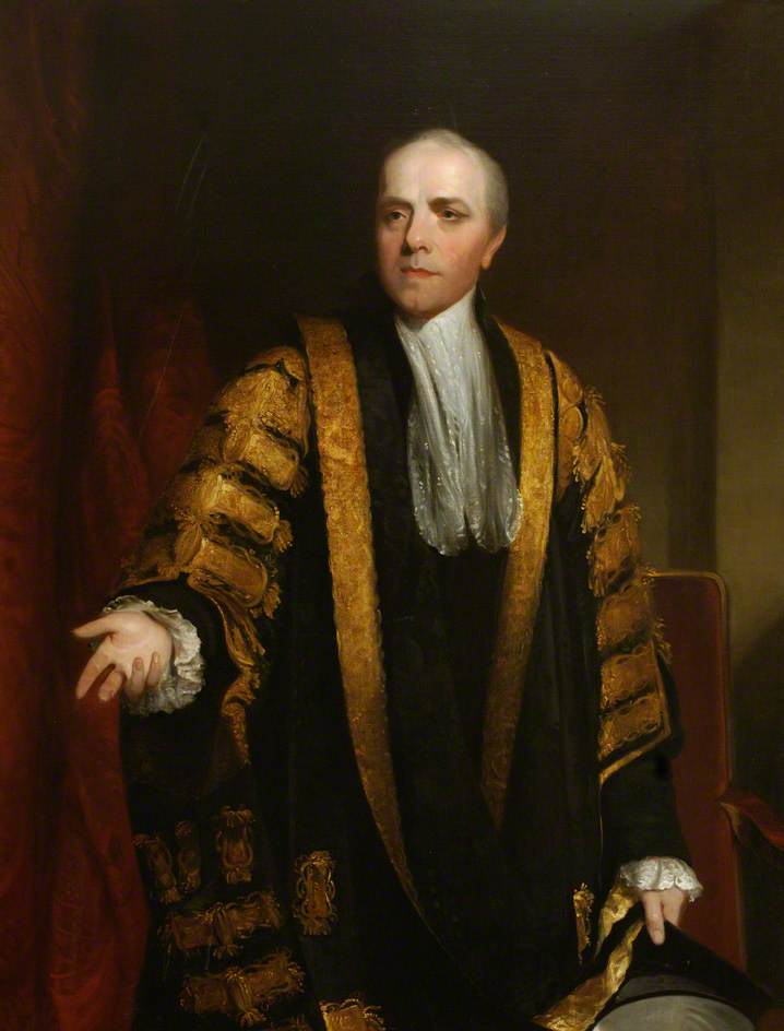 Portrait of William Grenville, 1st Baron Grenville (1759-1834), Chancellor of Oxford University